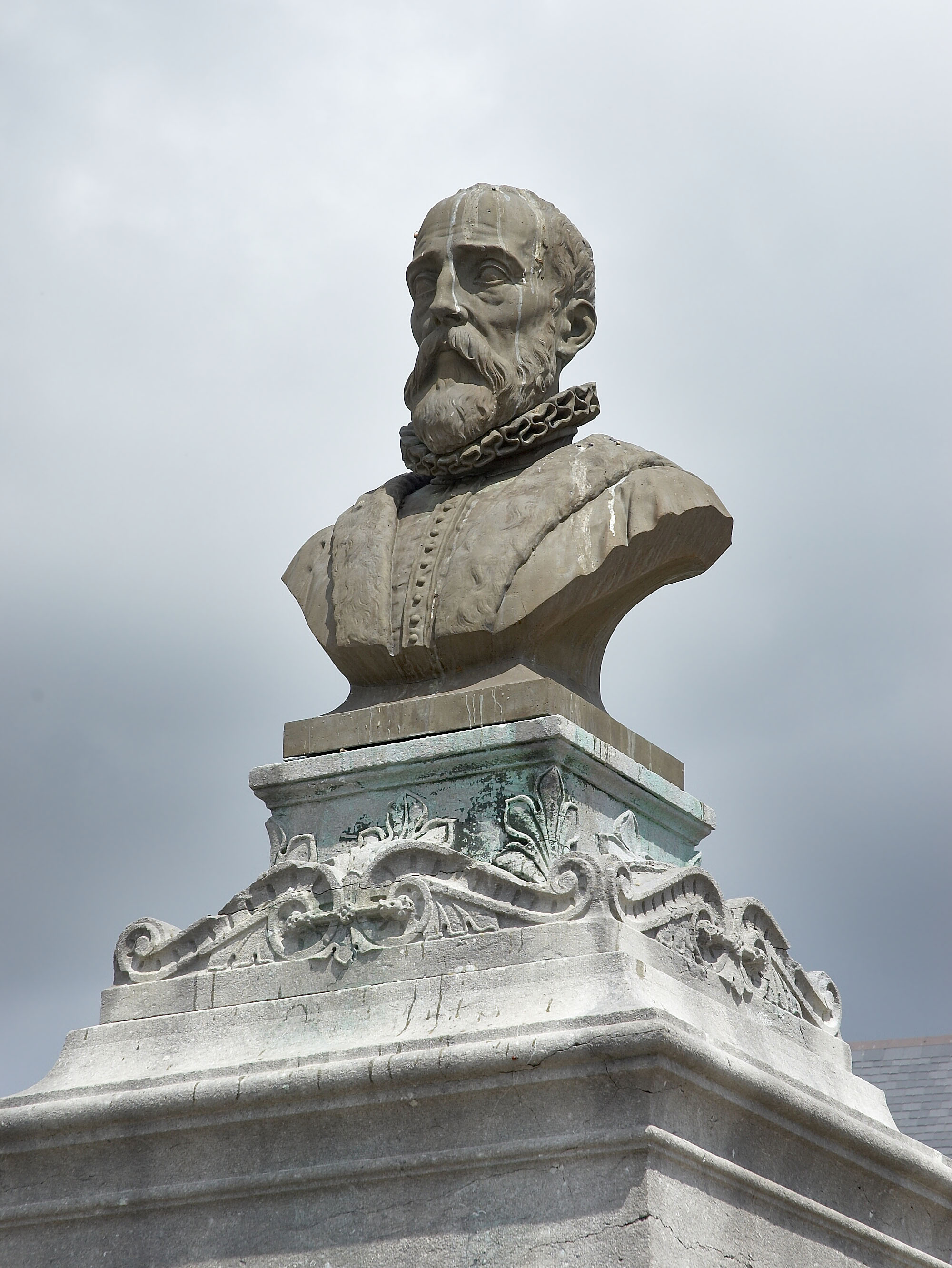 Justus Lipsius monument in Overijse, Belgium